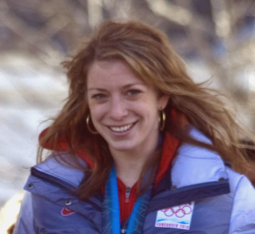 Hannah Kearney at her Norwich, Vermont home-coming celebration on 26 February 2010 after receiving a gold medal in women's freestyle skiing at the 2010 Winter Olympics